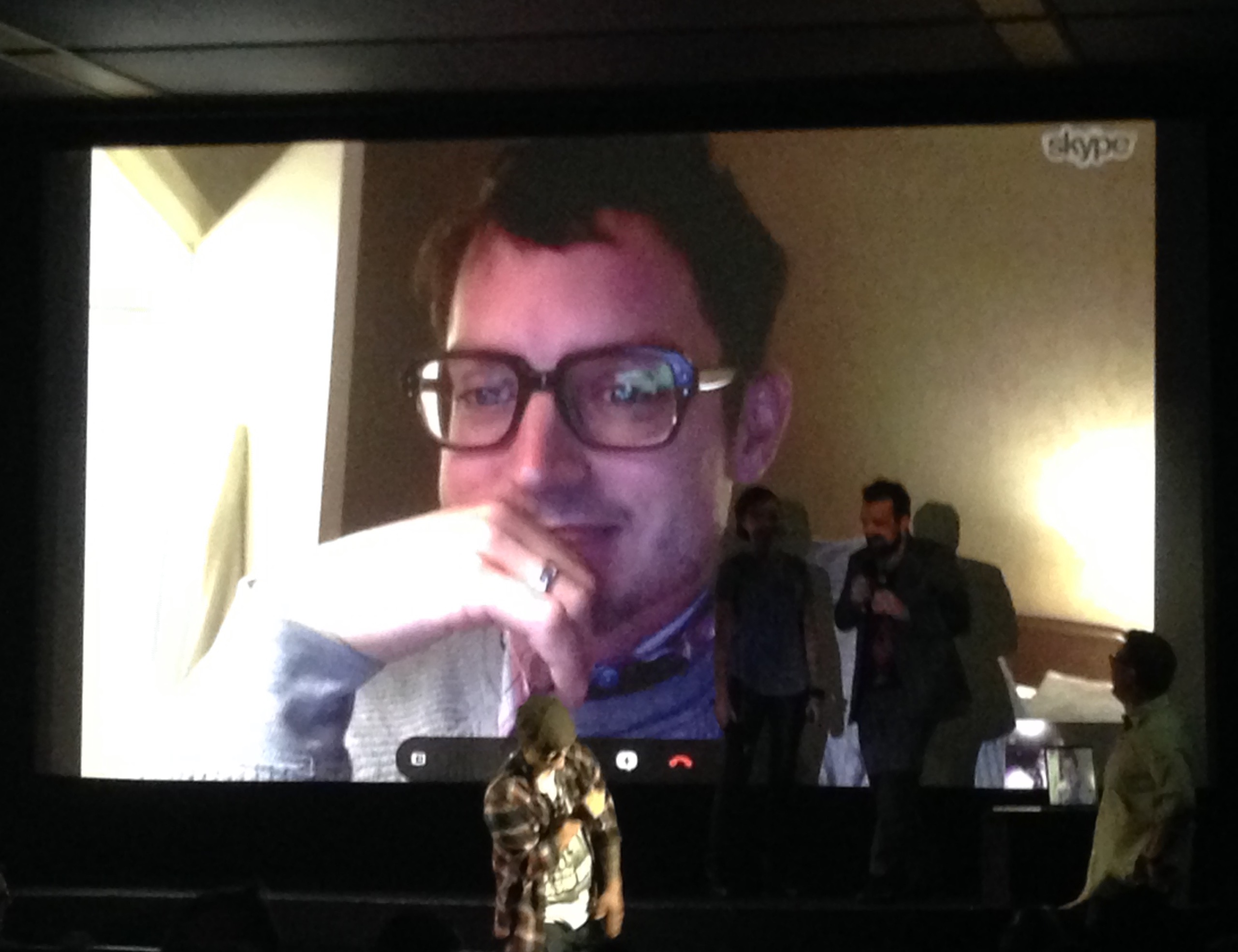 Elijah Wood being interviewed via Skype at the LA premiere of Open Windows